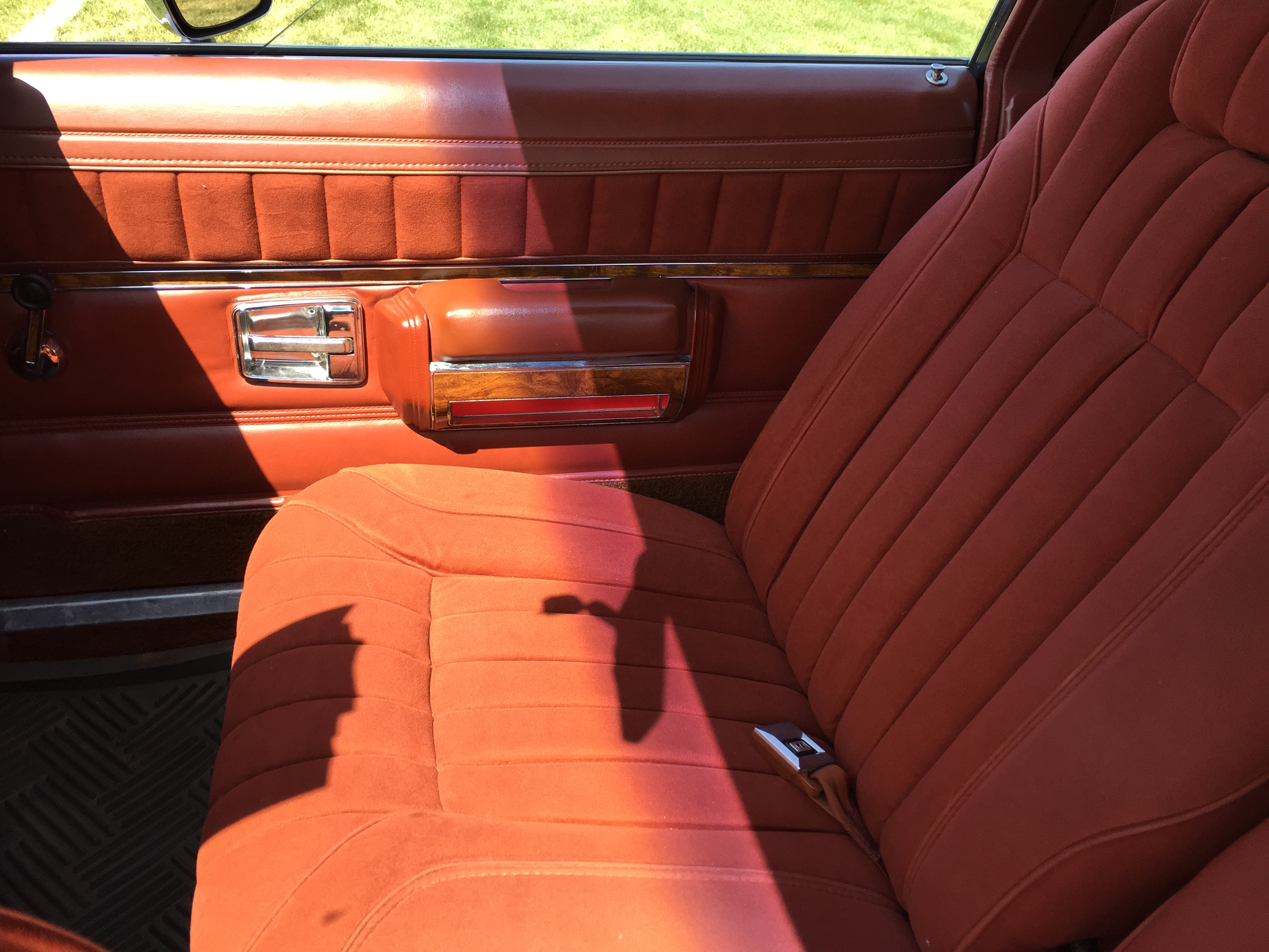 1979 AMC Concord two-door sedan, an innovative "luxury" compact built by American Motors Corporation. This D/L model is finished in black paint with standard vinyl roof cover and a contrasting red standard plush upholstered and trimmed interior. Picture taken at the American Motors Owners Association (AMO) annual convention that was held July 2015 near Cleveland, Ohio.